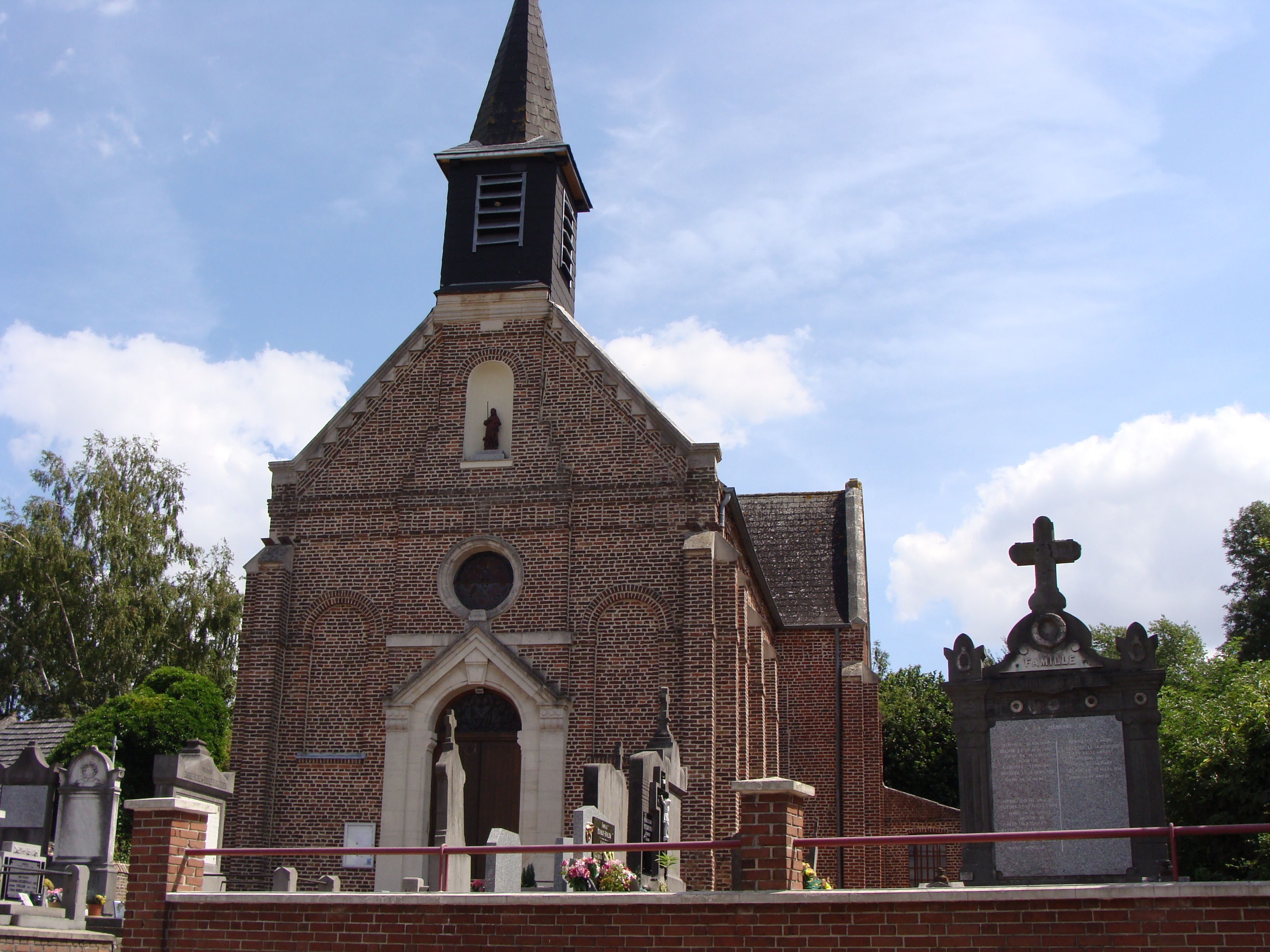 Depicted place: Q41784528